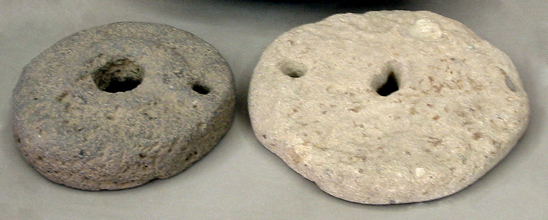 Urartian grain bruiser